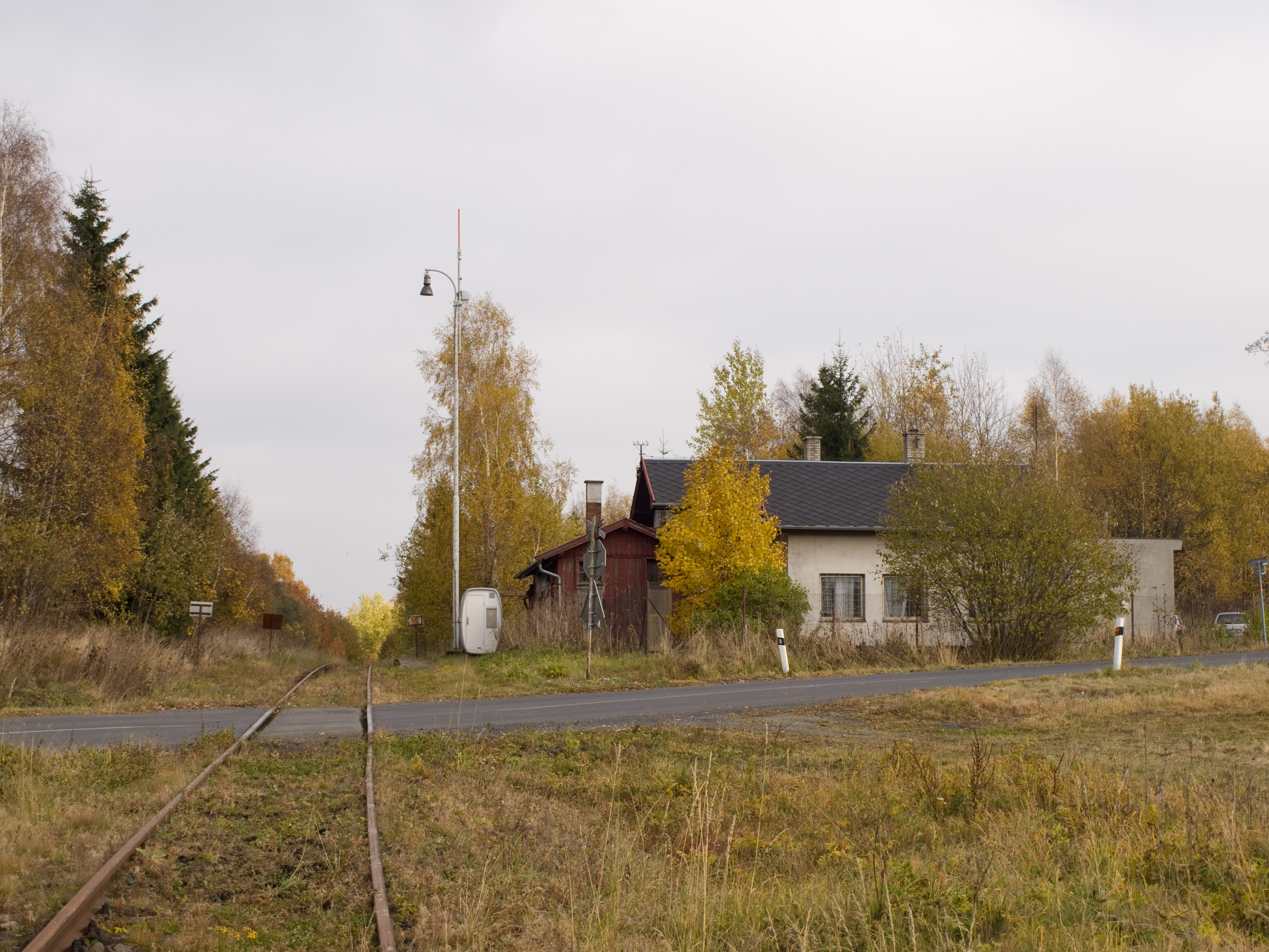 Rudná pod Pradědem zastávka towards Světlá Hora, railway track n. 312 Bruntál – Světlá Hora – Malá Morávka